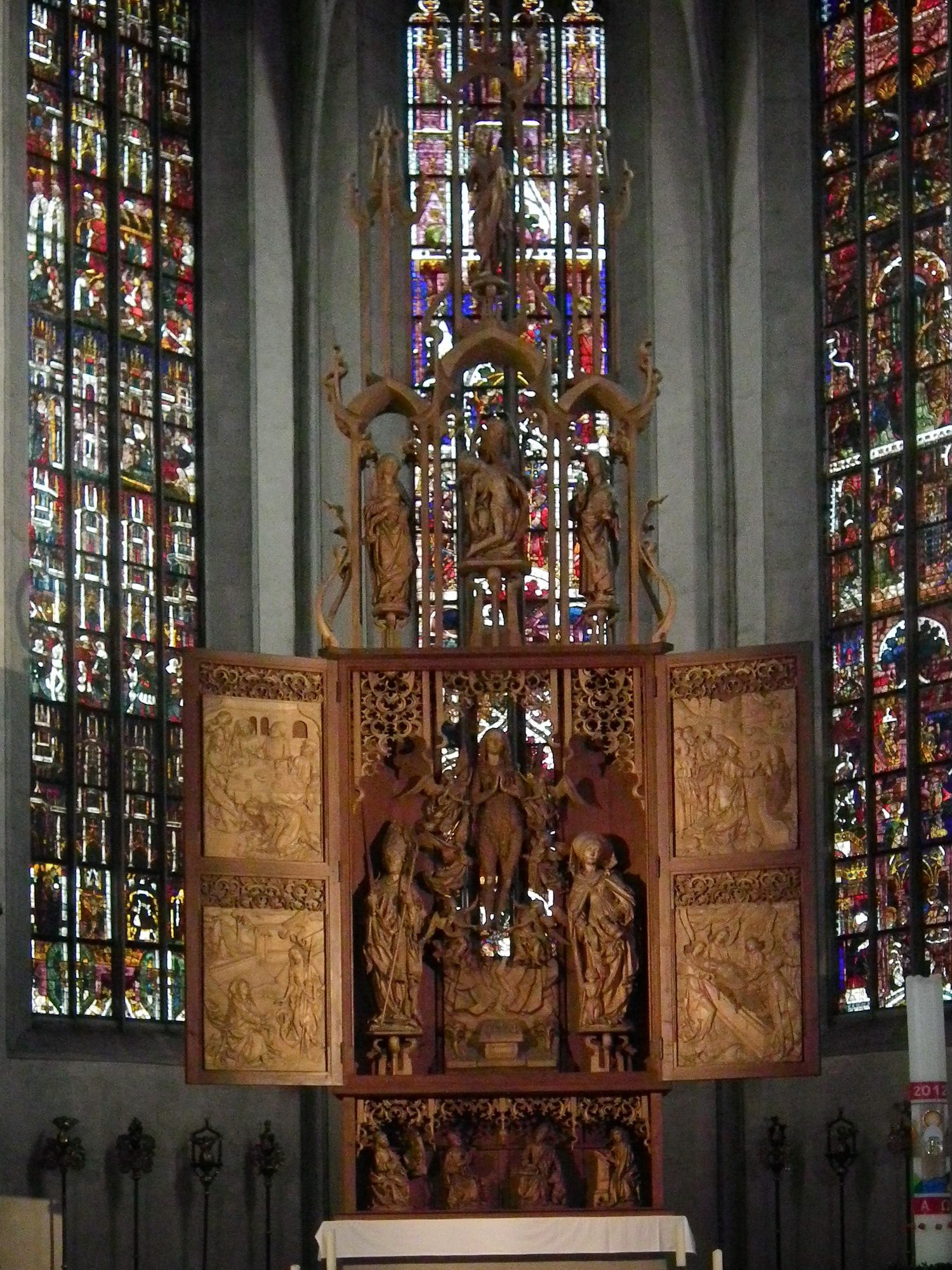 St. Maria Magdalena Münnerstadt Native nameSt. Maria MagdalenaLocationMünnerstadt, Lower Franconia, GermanyCoordinates50° 14′ 56.04″ N, 10° 11′ 44.88″ E Authority control : Q2801564 VIAF: 142822833 LCCN: nr2002023876 WorldCat institution QS:P195,Q2801564